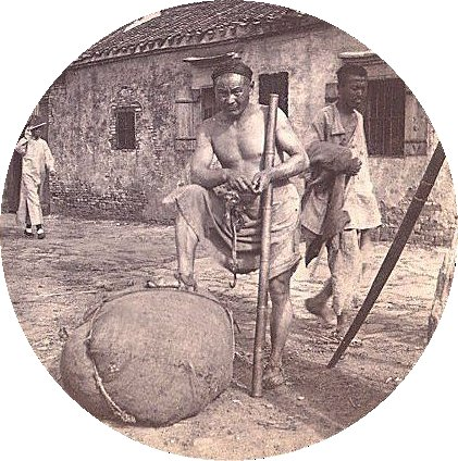 Coolie labourer circa 1900 in Zhenjiang, China. The bamboo pole he leans upon was used to hoist and carry the bundle at his feet with the pole over his shoulder and the bundle leaning against his back. On the left side of the image, in the background, another man uses this same technique of bearing a heavy load.